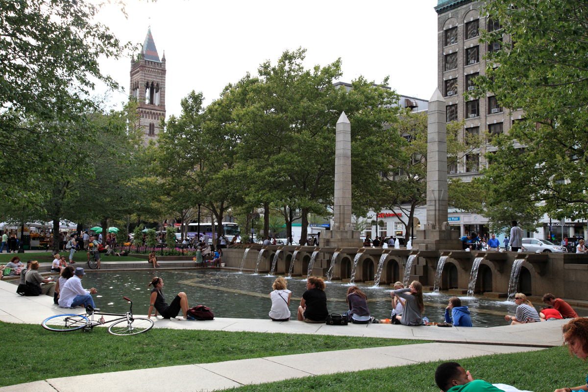 Copley Square fountain in Boston. The campanile of Old South Church is visible on the left.